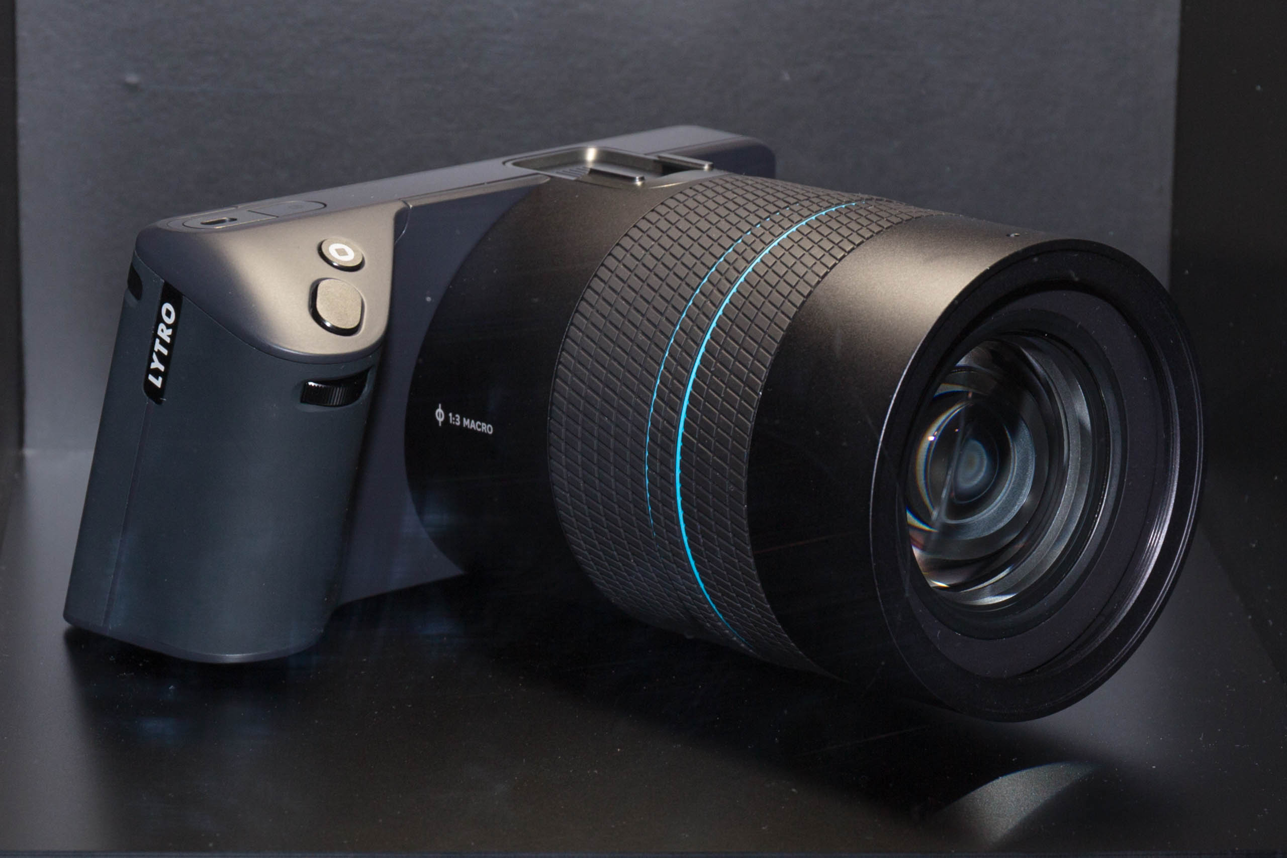 CP+ 2015: 2014 Lytro ILLUM